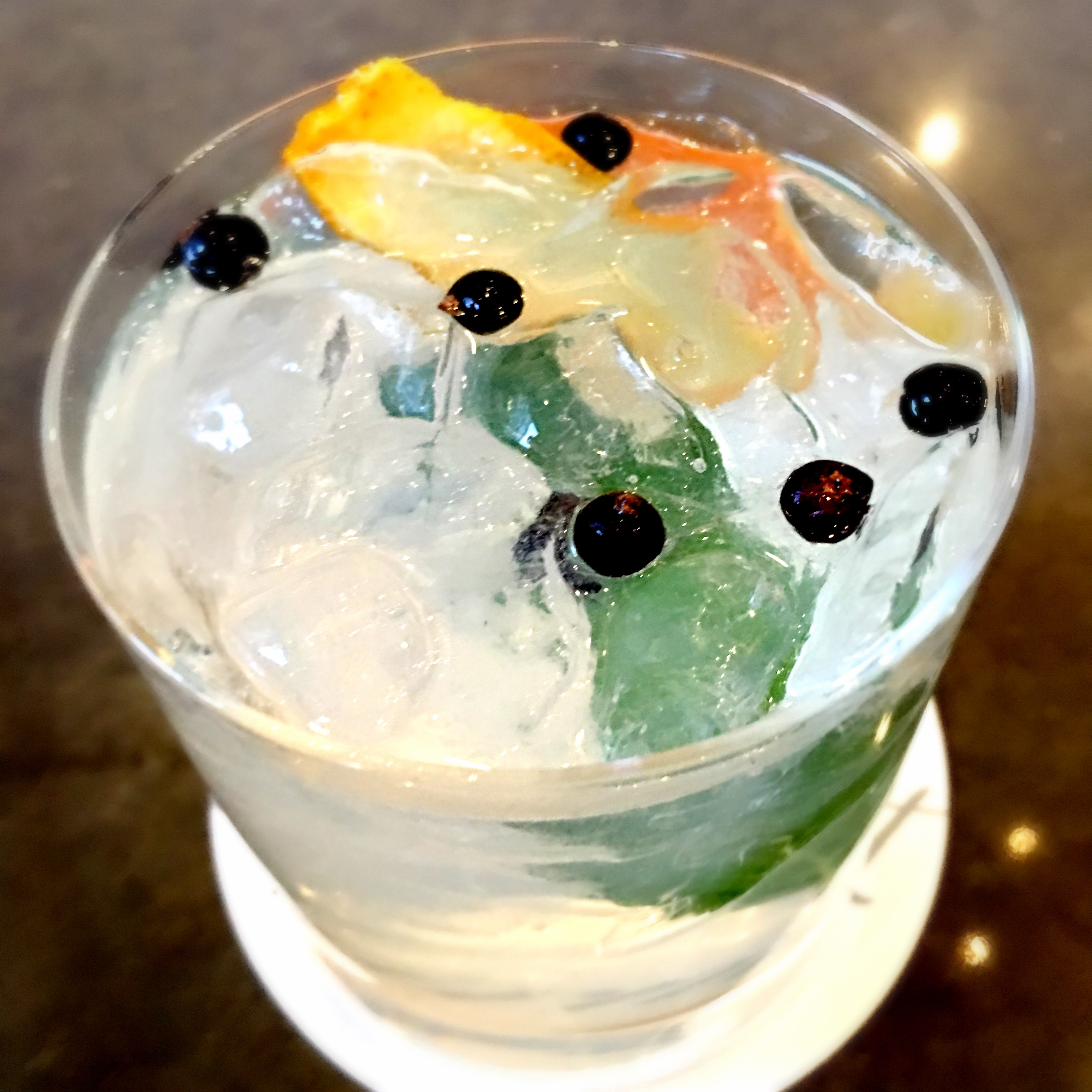 Craft Gin and Tonic at the Fairmont Washington, DC: Hendricks Gin, Fever Tree Tonic Water, Fragrant Leaf, Grapefruit Peel and Juniper Berries